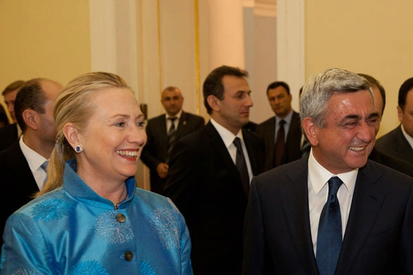 Secretary Clinton meets with Armenian President Serzh Sargsyan